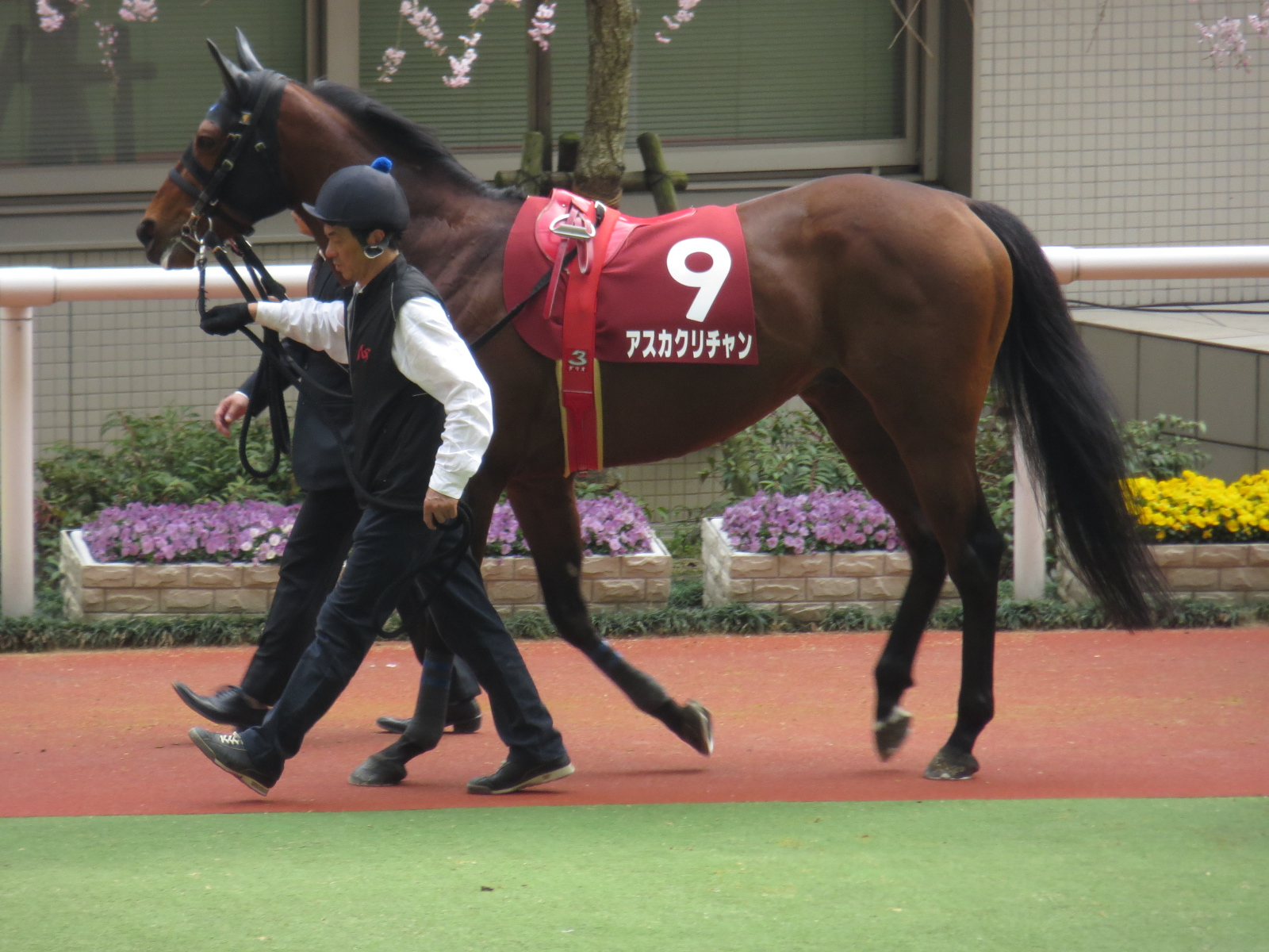 Asuka Kurichan (Racehorse of Japan).